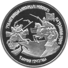 Commemorative coin - 750th anniversary of the victory of Alexander Nevsky at Lake Peipsi